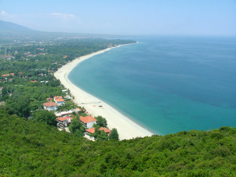 Olimpic Beach, Greece